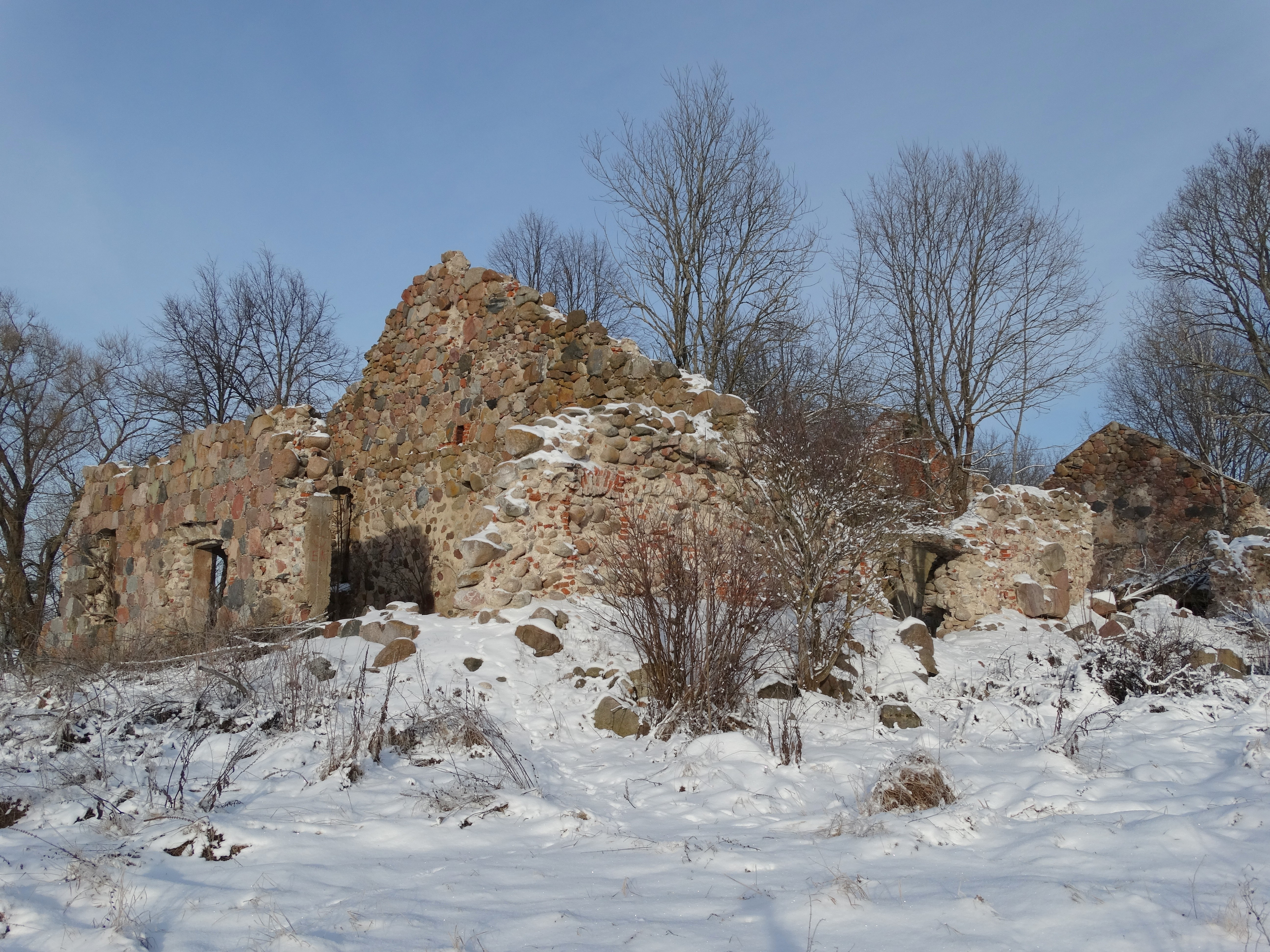 Manor ruins, Daugirdiškės, Elektrėnai Municipality, Lithuania